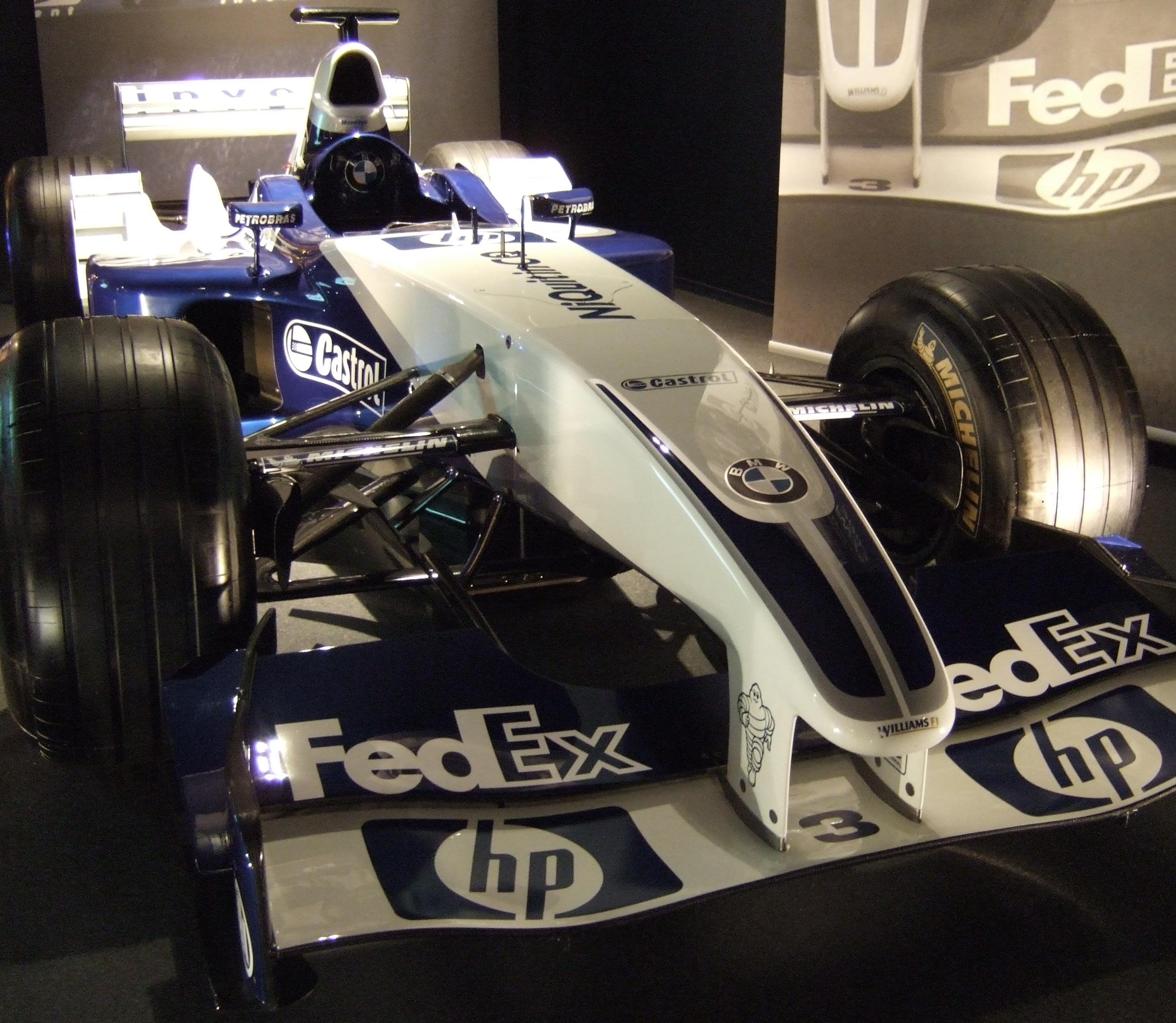 A Williams FW25 chassis.